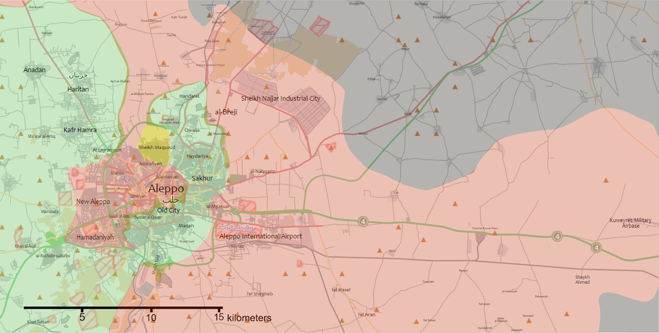 Map of the situation in Aleppo, on 20 August 2016, during the Battle of Aleppo (2012–present). At that time, a recent offensive by the Syrian Rebels effectively left the Rebel forces and the Syrian Army besieging each other's respective parts of Aleppo city. Controlled by the Syrian Armed Forces Controlled by the People's Protection Units (Kurdish Forces) Controlled by the Islamic State of Iraq and the Levant Controlled by the Opposition Forces Controlled by the al-Nusra Front The disputed frontline between the forces